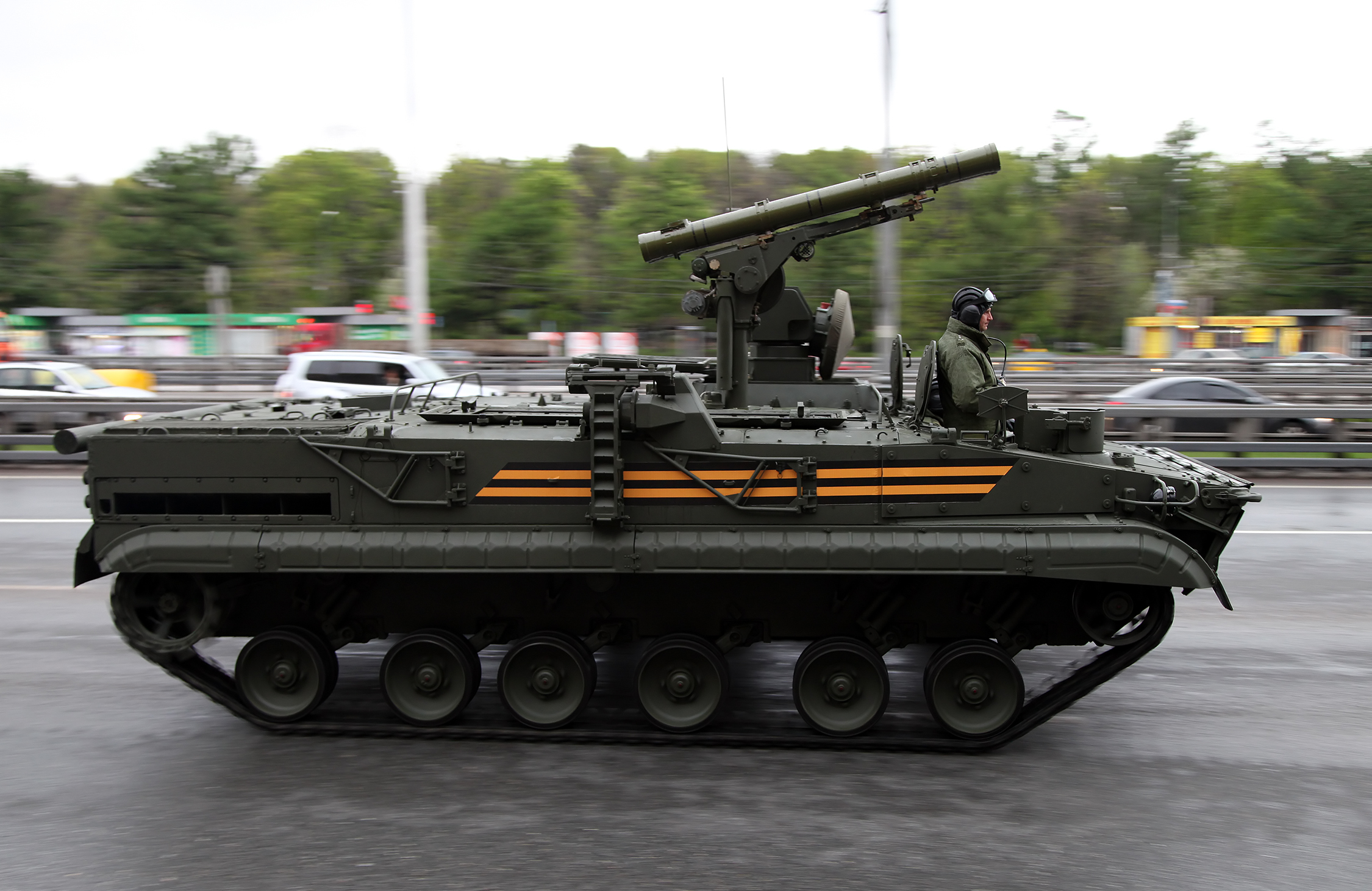 9P157-2 combat vehicle from 9K123 Khrizantema-S anti-tank missile system